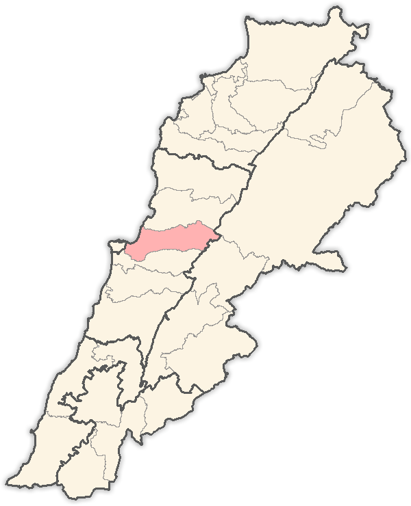 Map of districts in Lebanon, highlighting the Matn District.